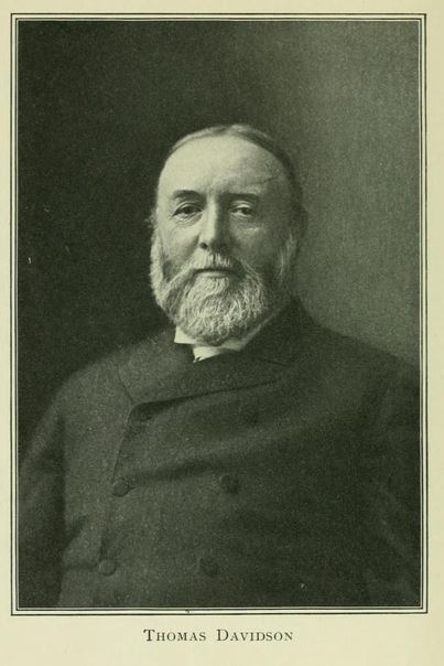 Thomas Davidson (1840-1900) was a Scottish-American philosopher. He was a teacher who had many scholars but no school.